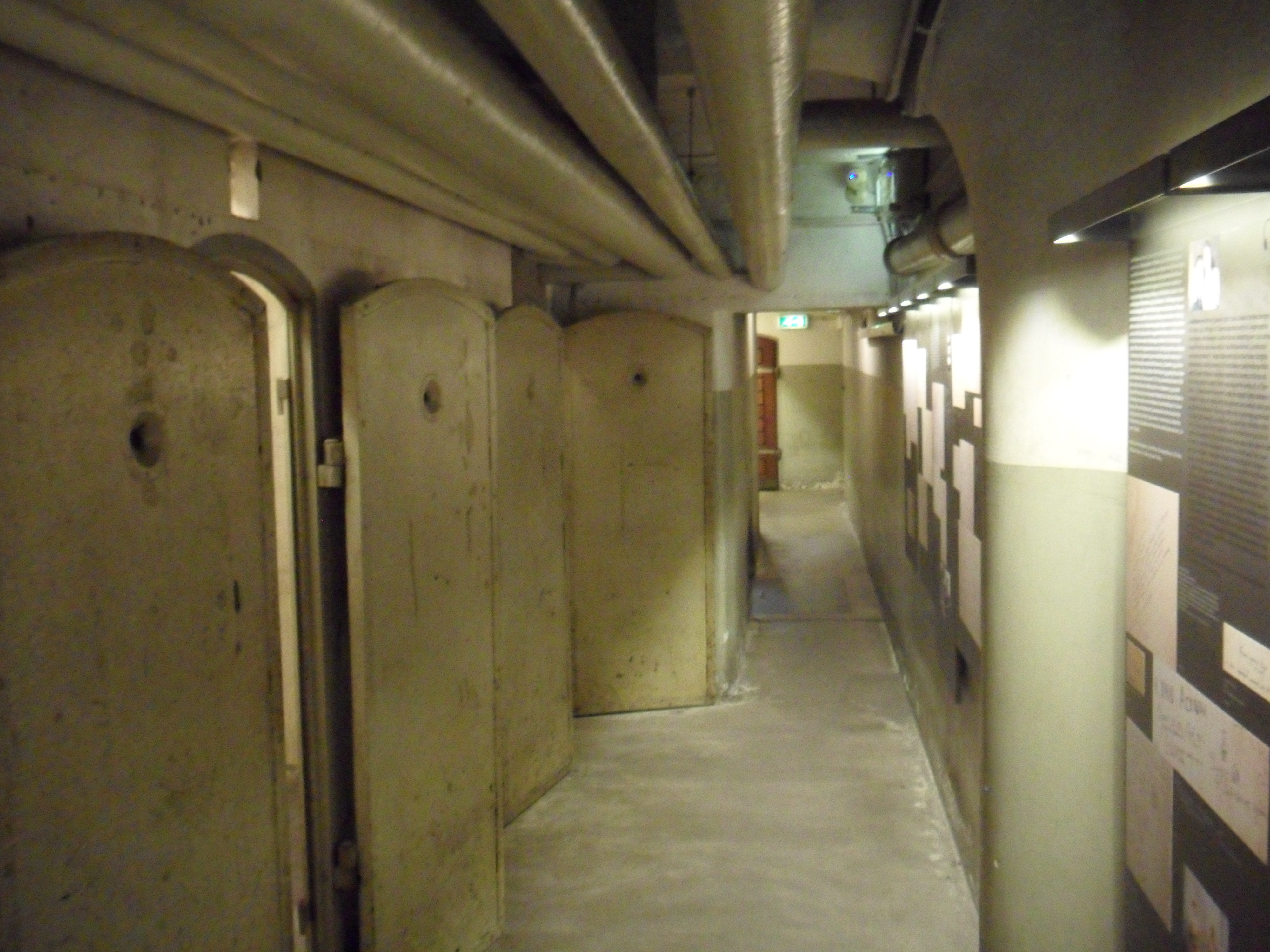 EL-DE House in Cologne (Köln), Germany. From 1933 to 1945 this house was the Gestapo Headquarters in Cologne and is now a museum documenting the Nazis in Cologne and in Germany as a whole. This photo shows one view of the basement cell block used to detain prisoners who were being interrogated.